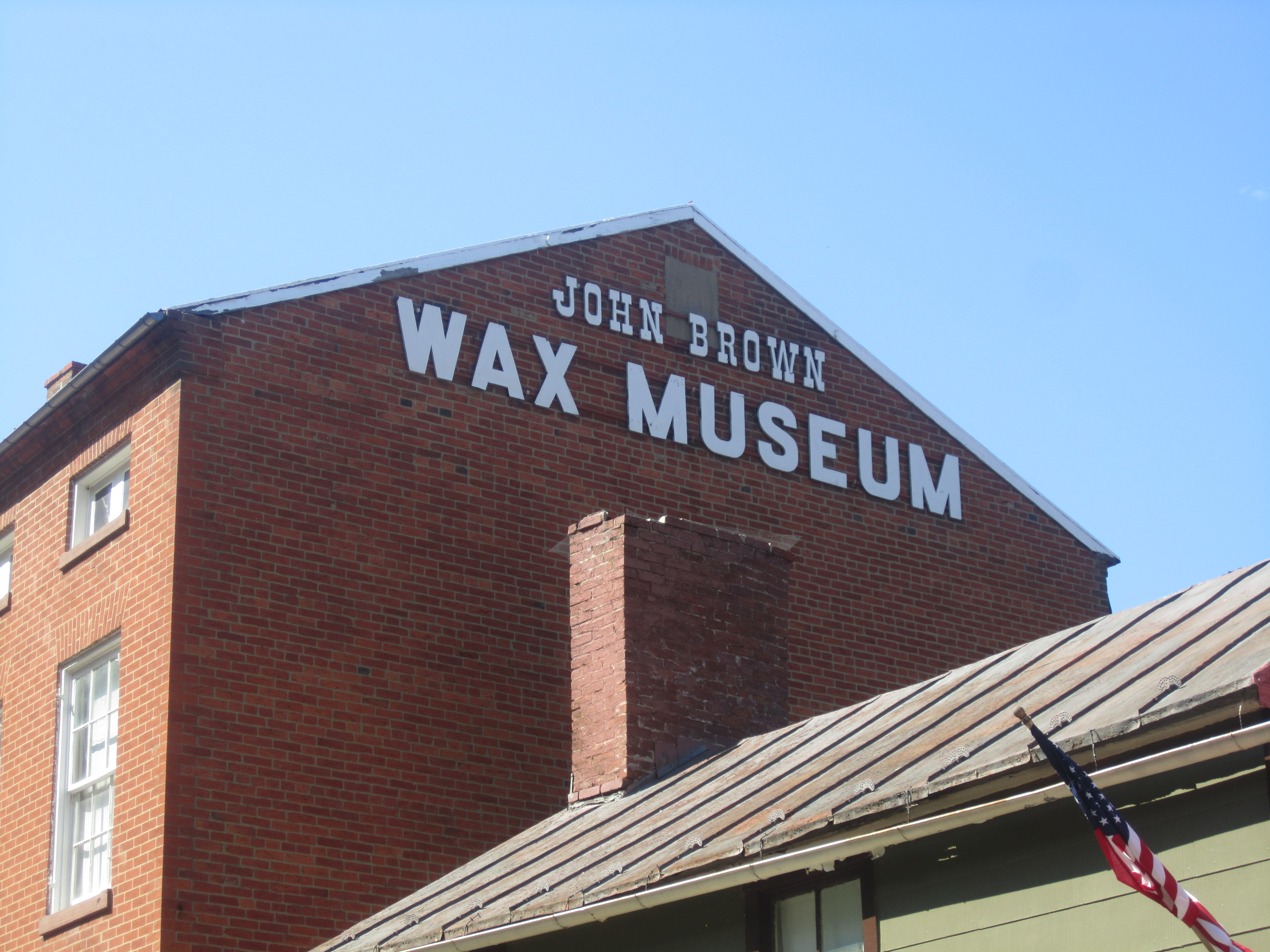 I took photo with Canon camera of John Brown Wax Museum, Harpers Ferry, WV.